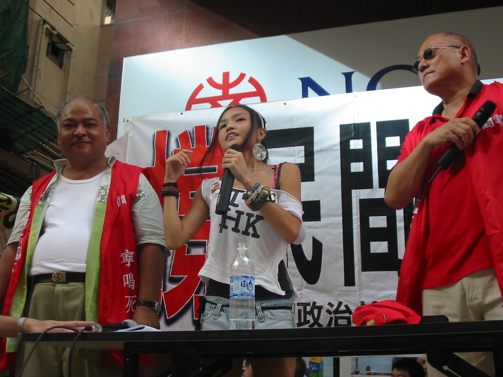 Christina Chan participates the July 1st march of 2008.